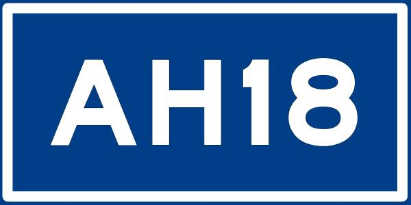 Asian Highway route shield.